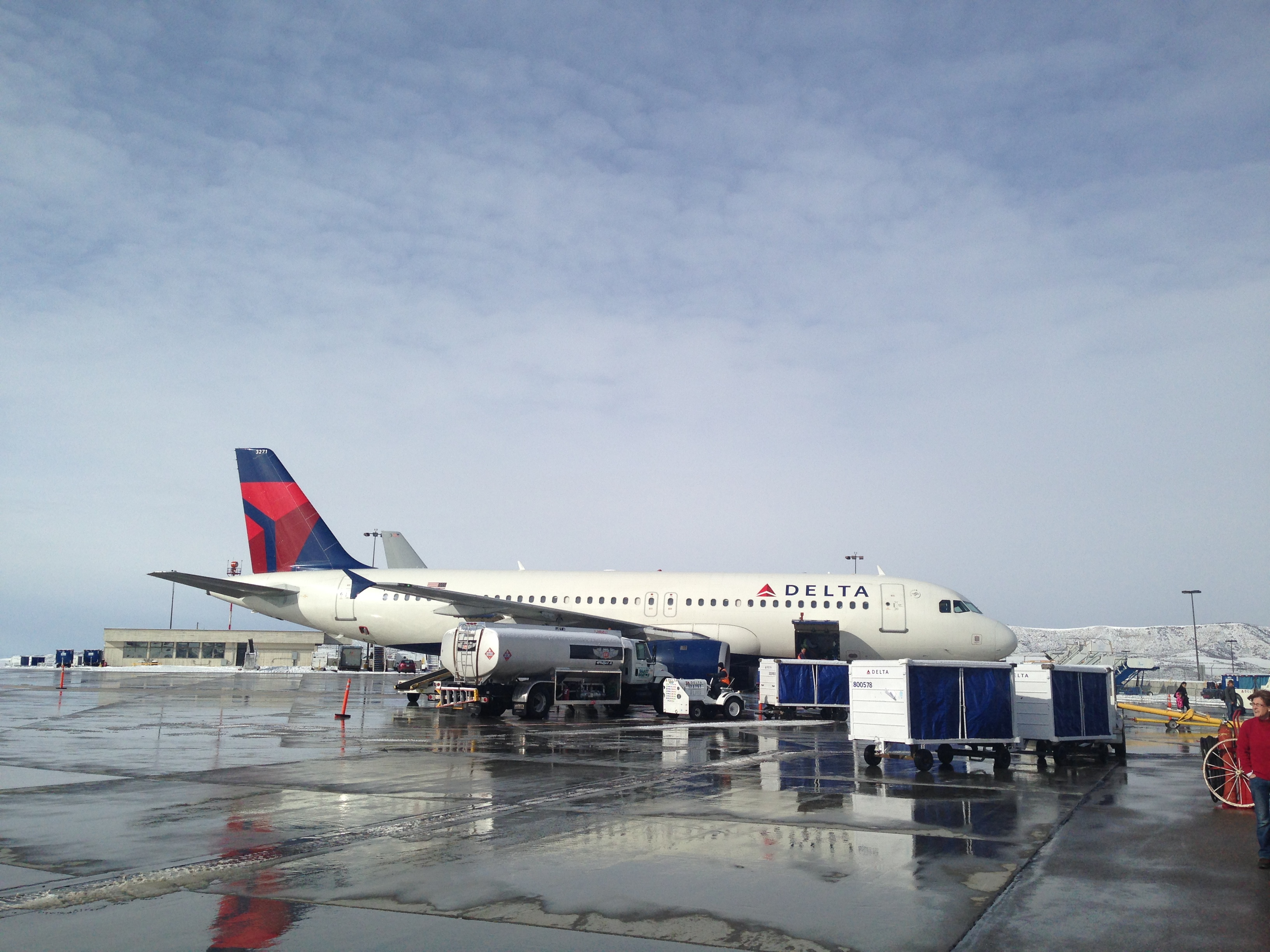 Delta Air Lines A320 shuttling snow sports enthusiast via Atlanta